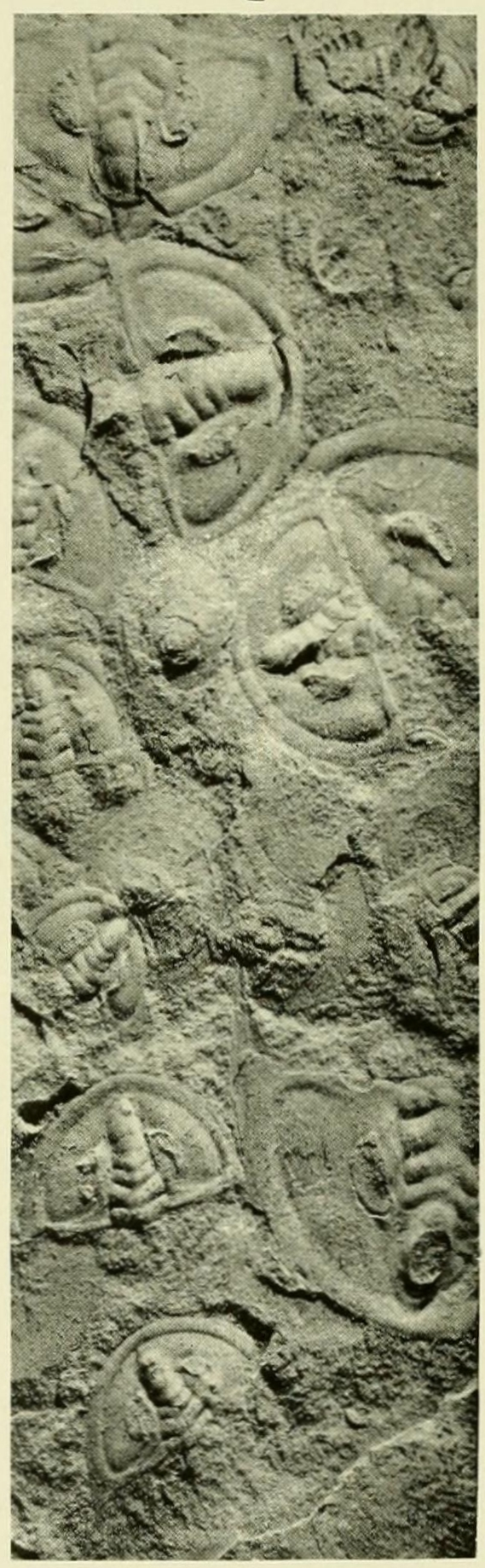 Nevadella perfecta (Walcott, 1913) Callavia perfecta; Walcott 1913:315, pl. 53, figs. 3–5. Nevadella perfecta (Walcott); Fritz 1992:25, pl. 4, figs. 4–6, pl. 5, figs. 1–5, 7e. Catalog record: USNM PAL 60082 Original historic description: PAGECallavia perfecta Walcott315Fig.4. (Natural size.) Specimens of the cephalon found in a parting of the shale. (Locality 61k.) U. S. National Museum, Catalogue No. 60082. The specimens represented here by figs. 1-5 are from locality 61k. Lower Cambrian: Mahto formation; dark, hard siliceous shale, northeast base of Mumm Peak above Mural Glacier on the west side of Hitka Pass, 6 miles (9.6 km.) in a direct line north of summit of Robson Peak and northwest of Yellowhead Pass, in western Alberta, Canada.